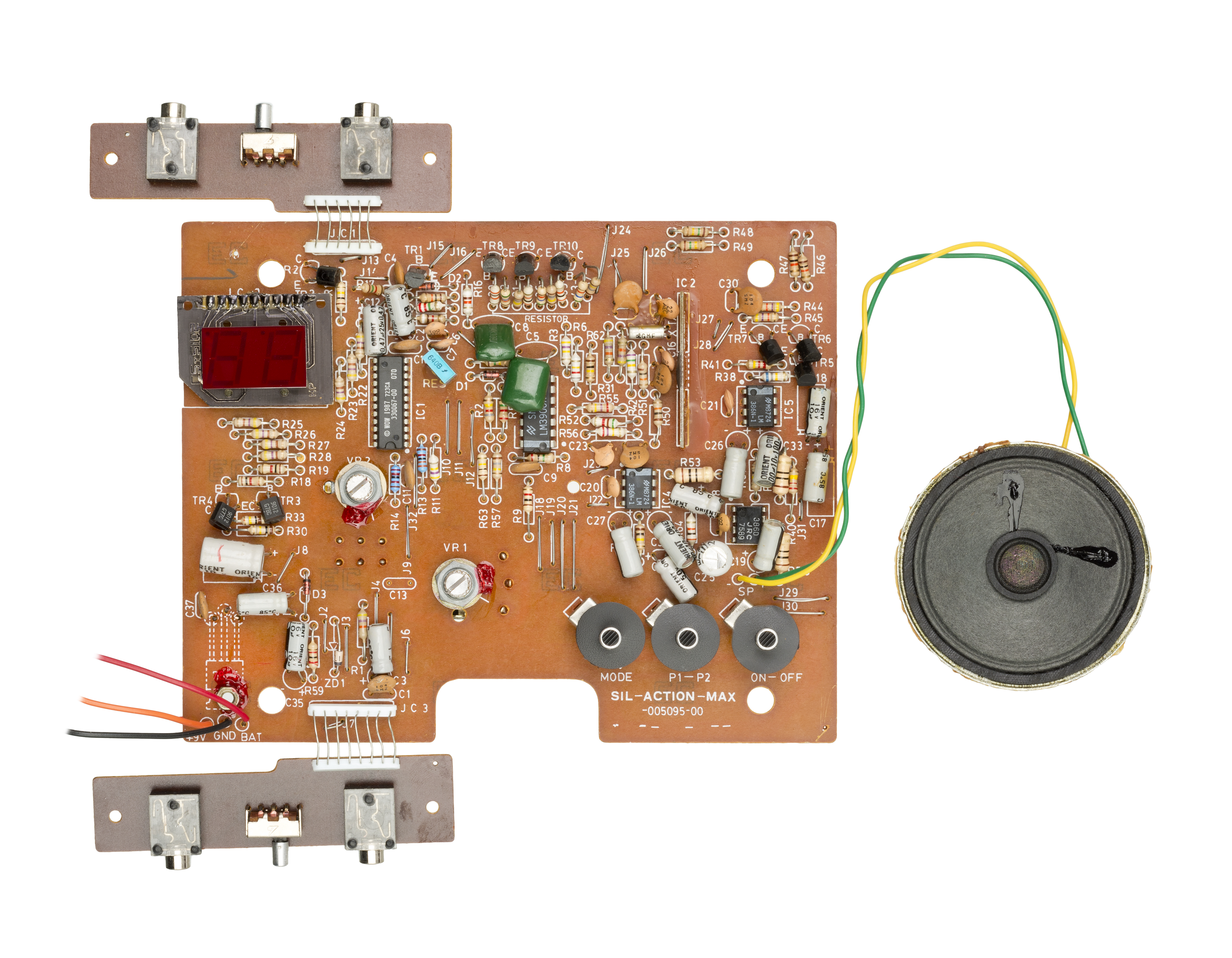 The motherboard of an Action Max video game console. Released in 1987 by Worlds of Wonder, it was a console that worked in conjunction with a VCR to play light gun "games". Games came on VHS tapes and were on-rails shooters that featured no real interactive elements. The console merely kept track of how many hits were scored during the game, utilizing an external red light to alert players to successful hits.